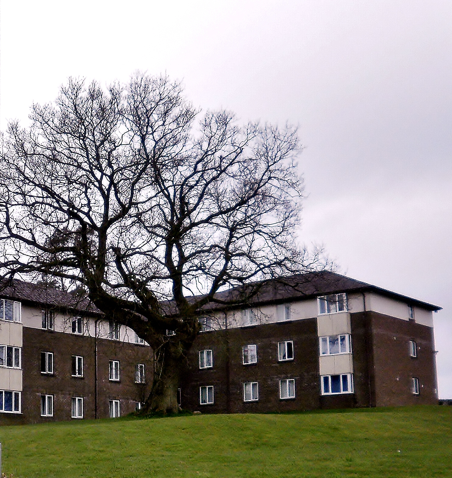 photograph of student accommodation on Trinity College Carmarthen